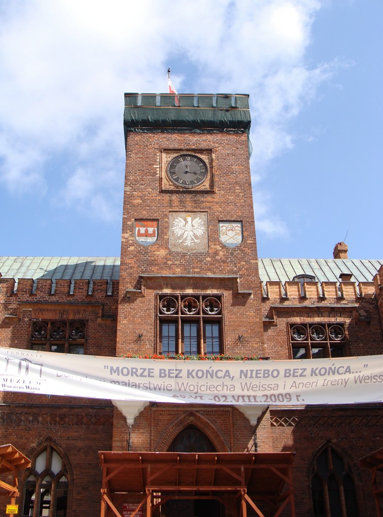 Kołobrzeg, town hall